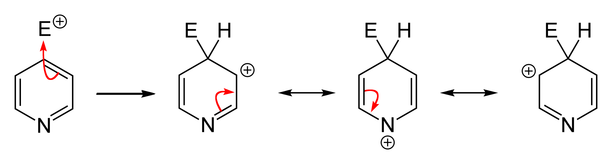 Skeletal formulae depicting the addition of an electrophile to pyridine in the 4 position, and the resonance structures of the intermediate formed. Image constructed in ChemDraw Ultra 11 and Photoshop.